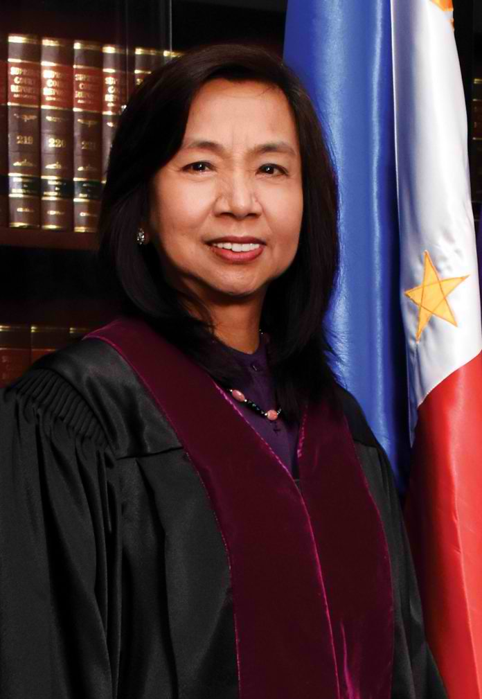 Bernabe in robes